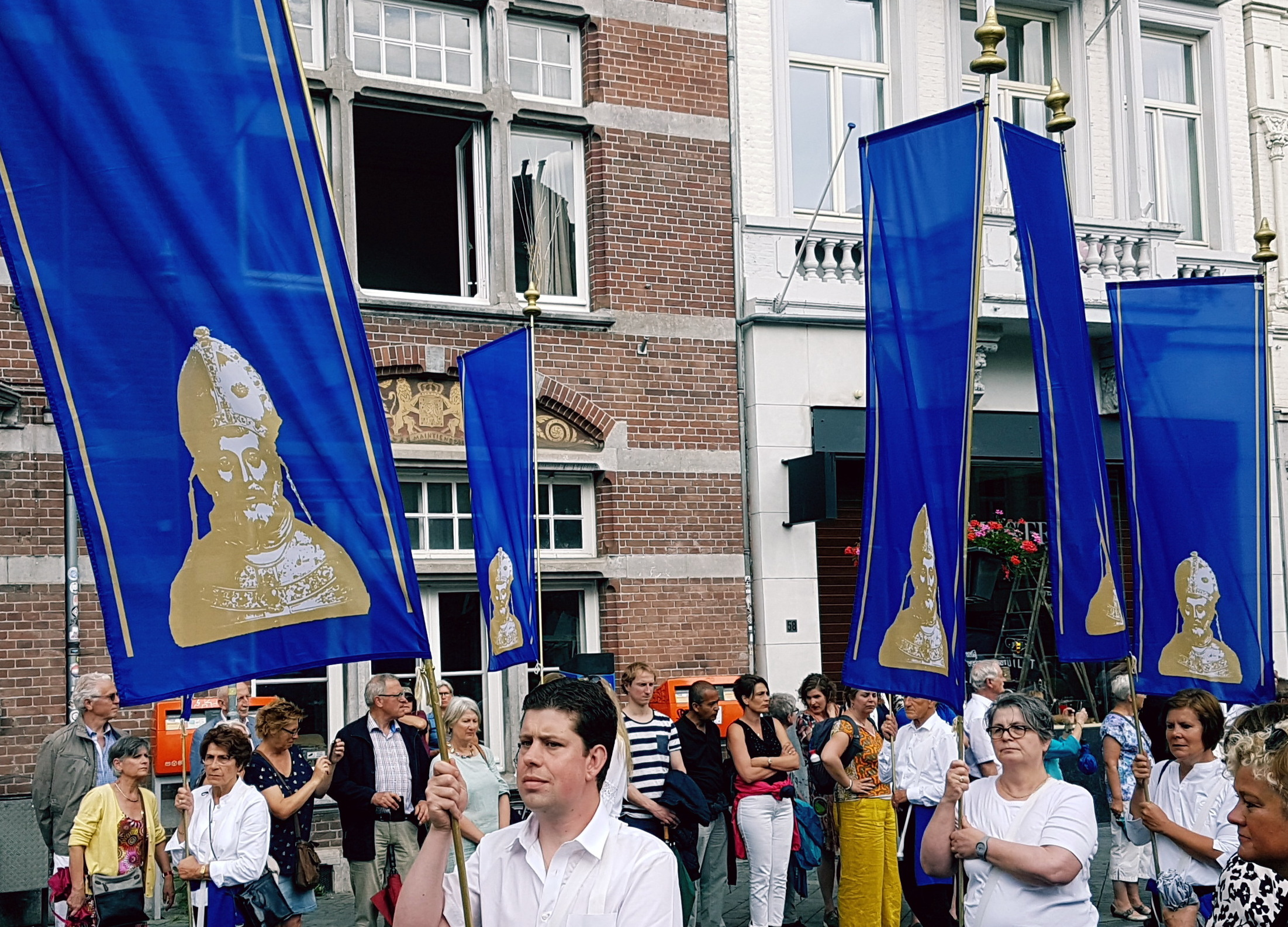 Participants with flags in a historic religious procession during the 2018 Heiligdomsvaart (Relics Pilgrimage) in Maastricht, Netherlands. The image on the flags is that of the reliquary bust of Saint Servatius, the city's patron saint. The history of this seven-yearly catholic pilgrimage goes back to the Middle Ages. The first 'modern' version took place in 1874. On both Sundays of the 10-day festival, a procession is held in which the main relics and other devotional objects are exhibited. This photo was taken in Stationsstraat during the (first) procession on Sunday 27 May 2018.